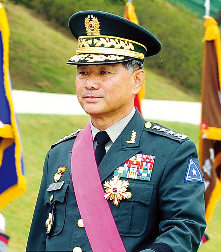 General Lim Choung-bin, Republic of Korea Army 中文（台灣）: 大韓民國陸軍上將任忠彬